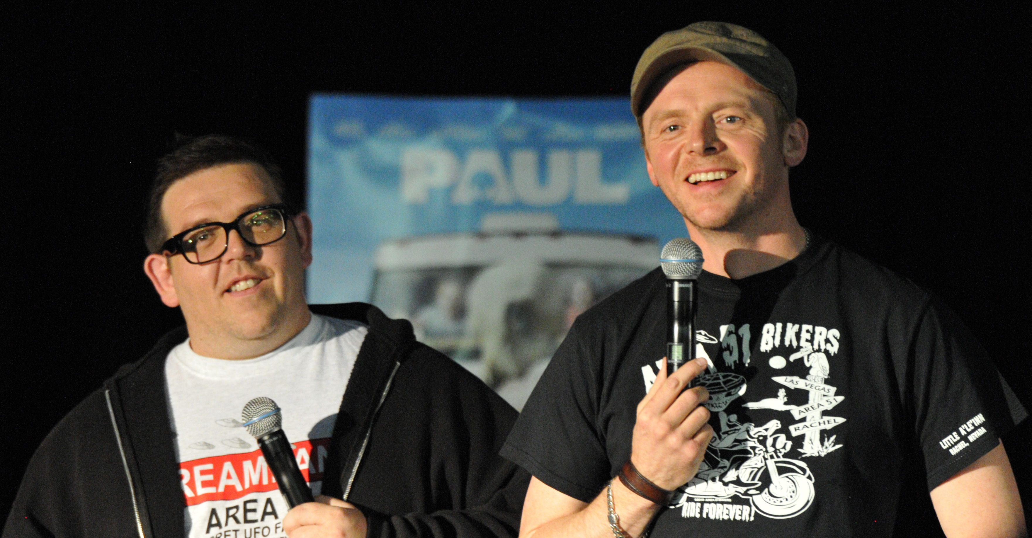 Simon Pegg and Nick Frost at Supanova 2011 Q&A for Paul.